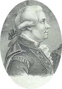 Johan Gustaf Wahlbom (1724-1808)